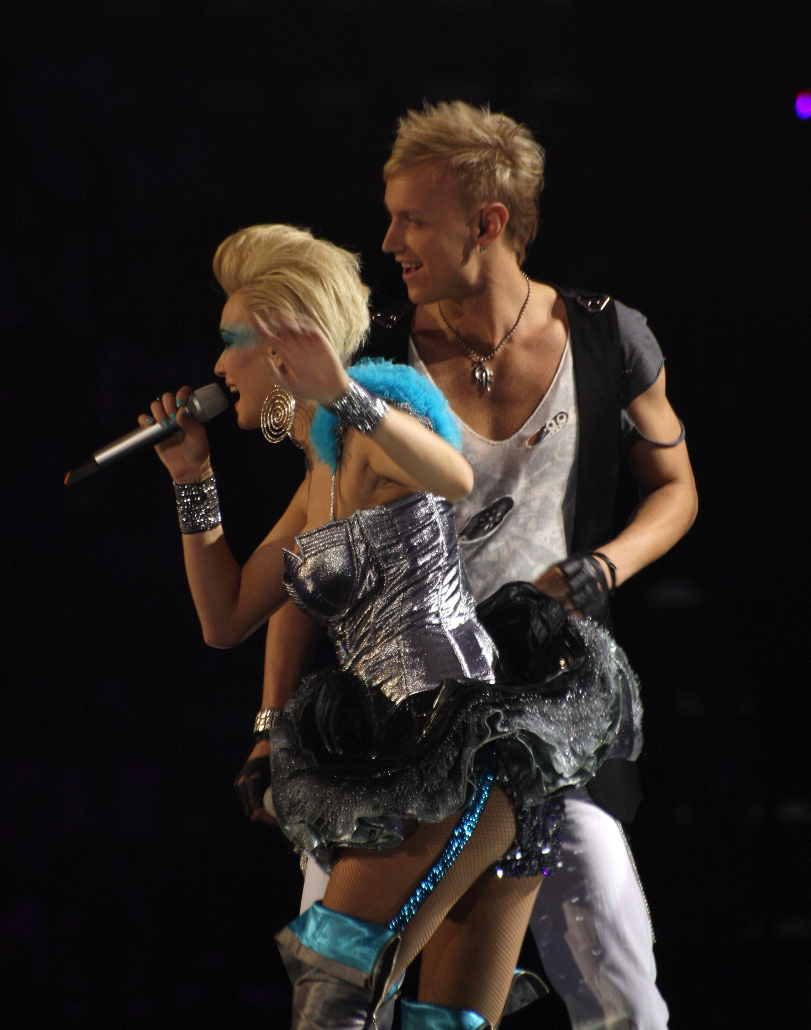 Sunstroke Project, Moldova's contestor at ESC 2010, Telenor Arena, Norway.